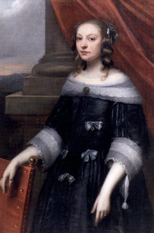 Elizabeth Beatrice "Elsa Beata" née Brahe (1629-1663), Princess of Sweden through marriage to Adolph John